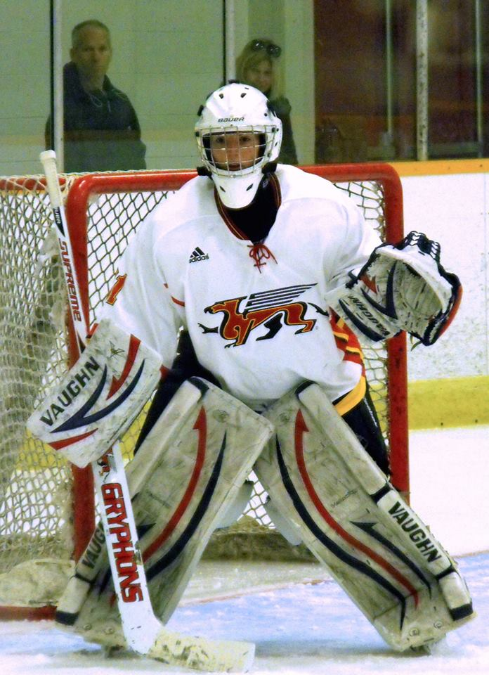 This photo was taken by Devan Mighton during the 2014-15 CIS season.